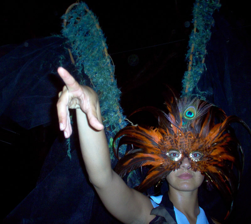 Perfomer at Raibow Serpent Festival 2006